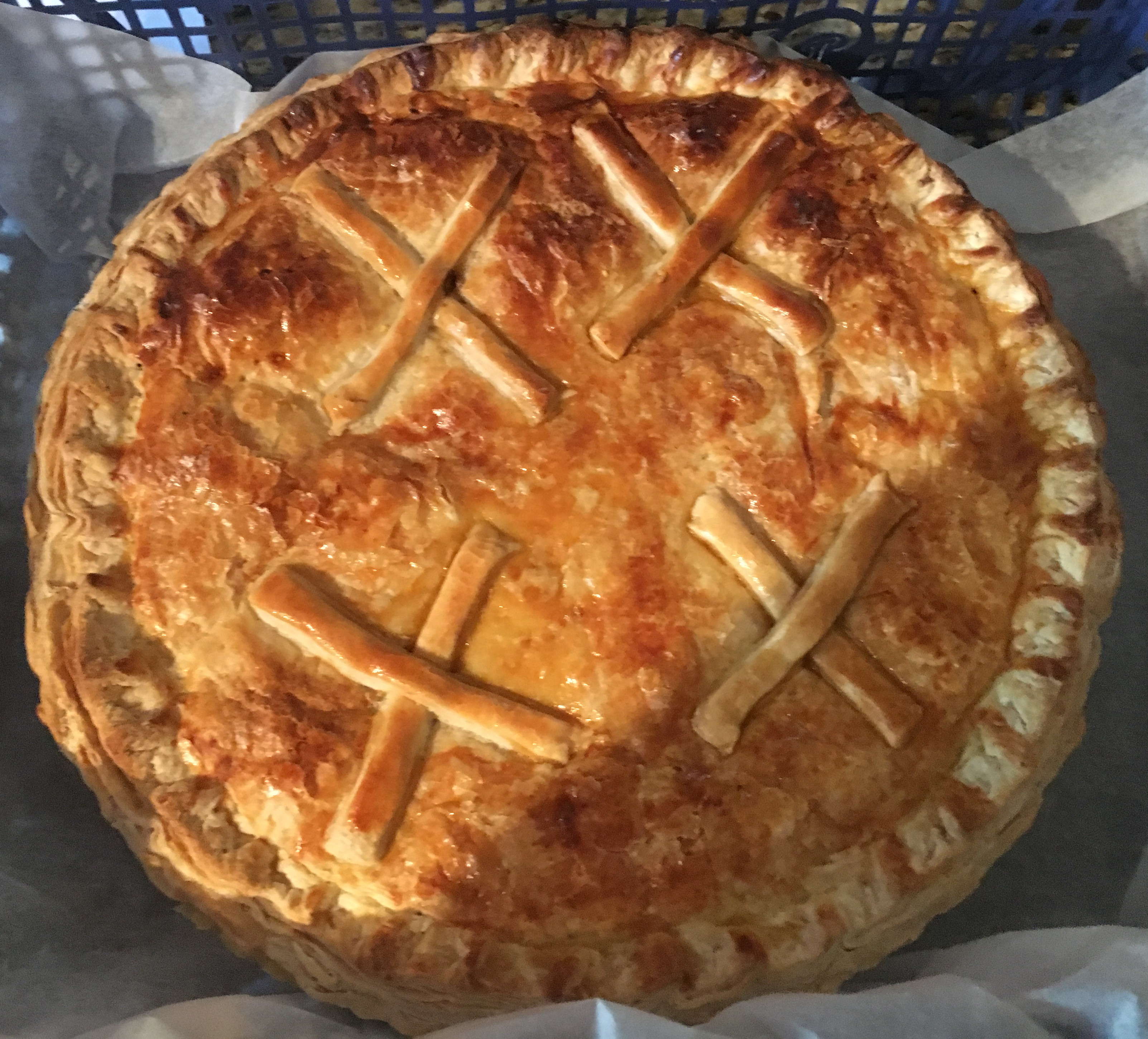 Family-sized meat pie made by Sweeney & Todd of Reading